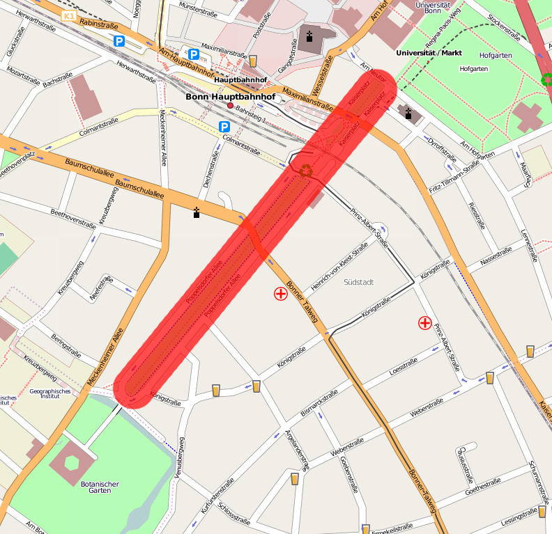 Map highlighting the Poppelsdorfer Allee in Bonn, Germany.